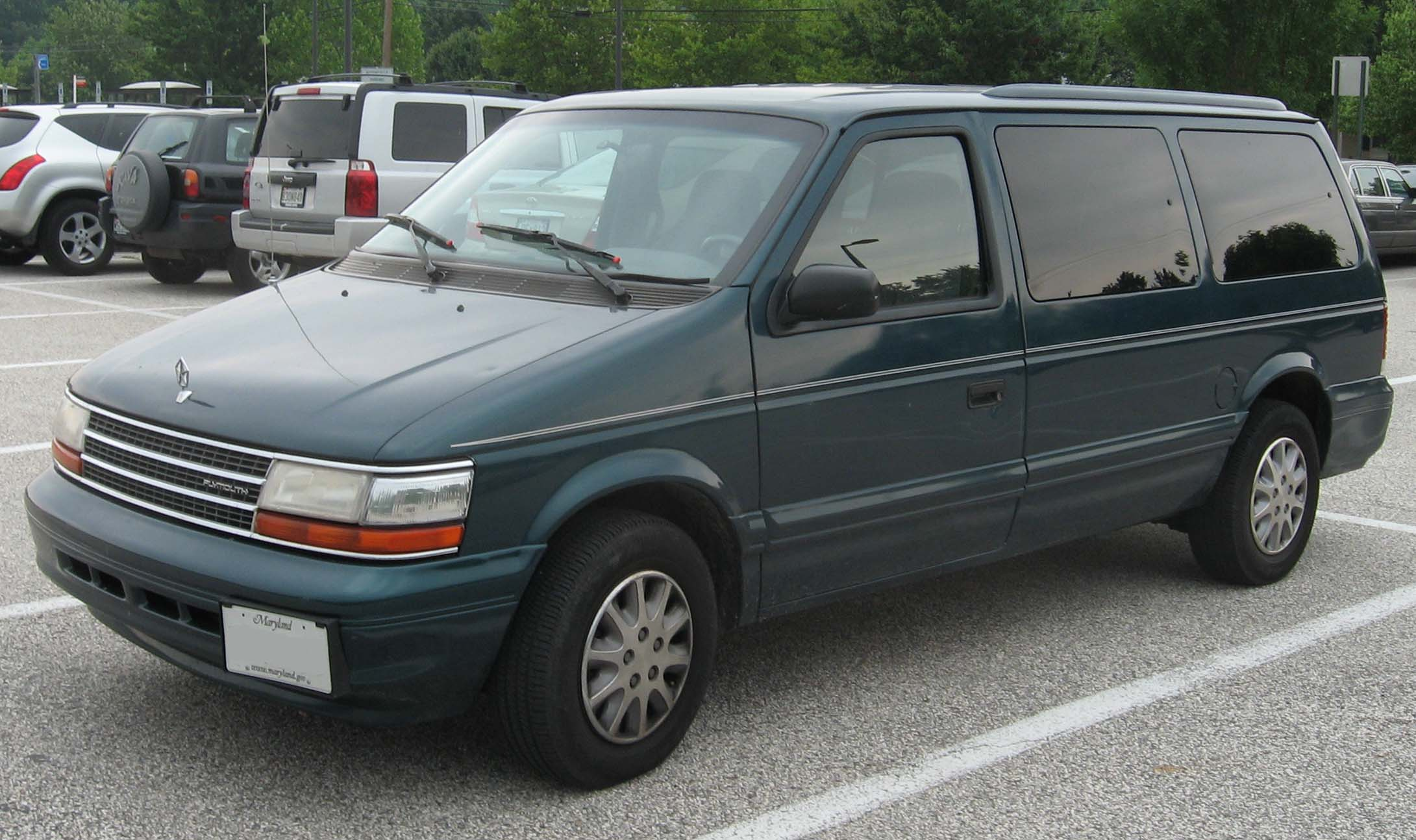 1992-1995 Plymouth Grand Voyager photographed in College Park, Maryland, USA.